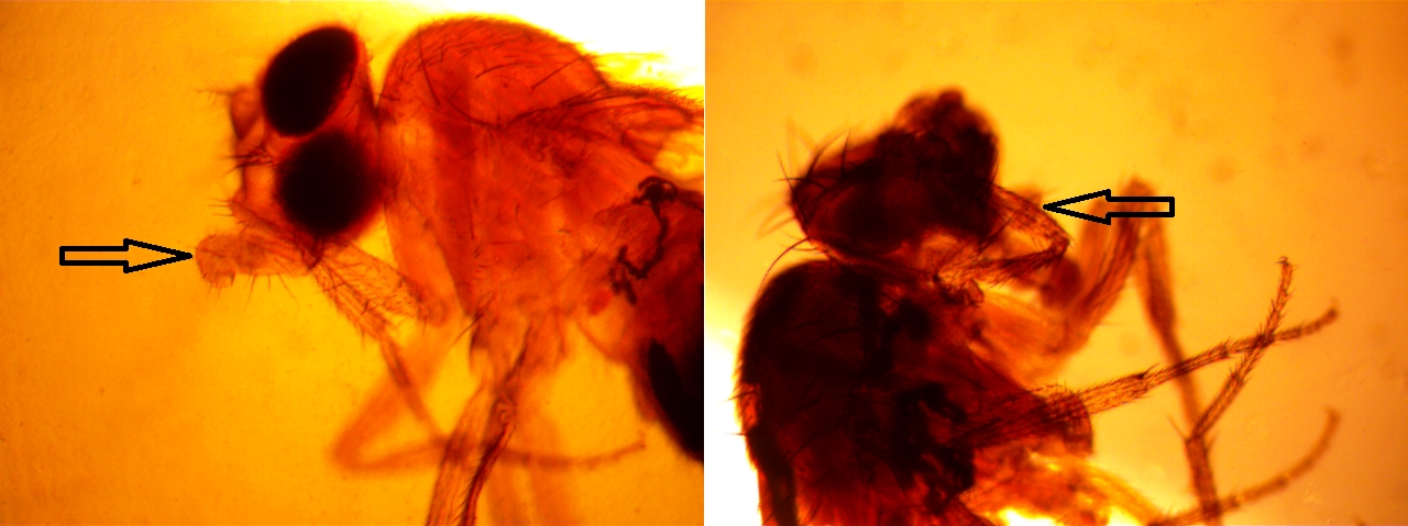 2 microscopic photographs of a Drosophila melanogaster: a normal one (left) and one with the Antennapedia mutation (right)